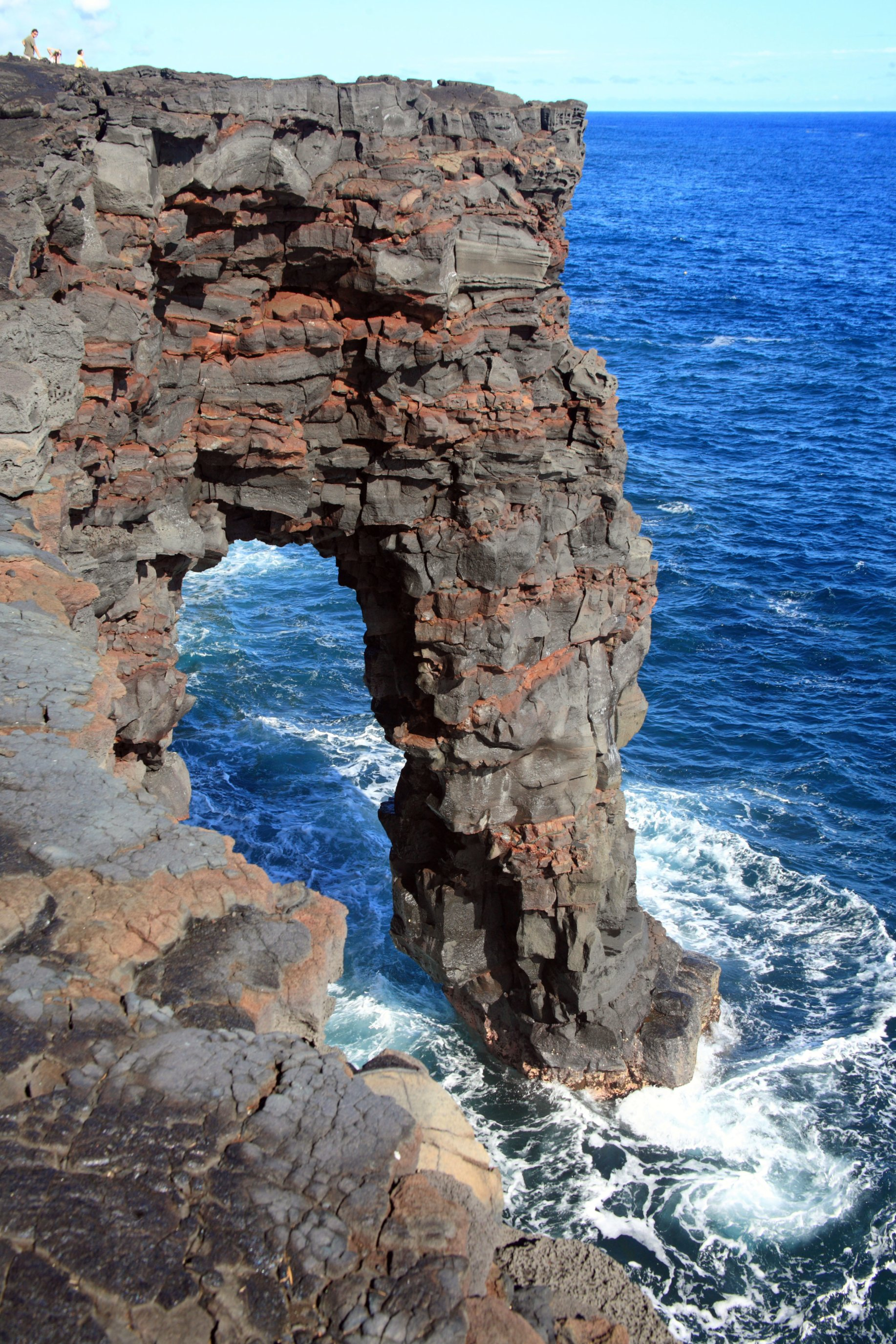 Hōlei sea arch, Kilauea, Hawaii, United States